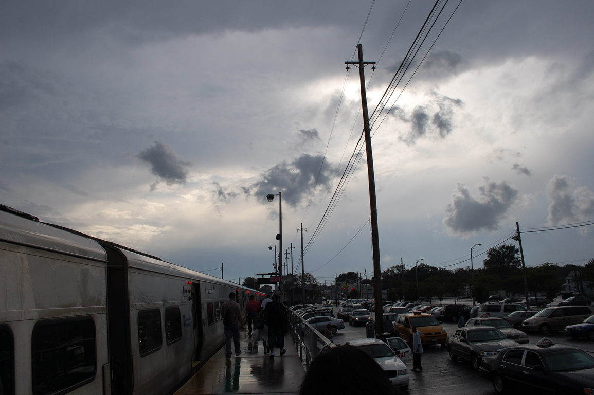 Looking westward on a rainy day.